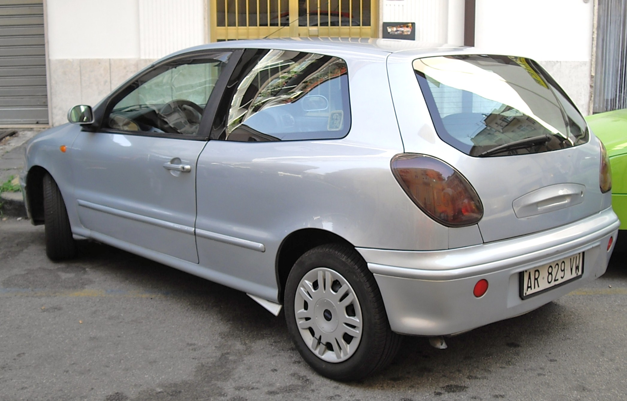 Fiat Bravo